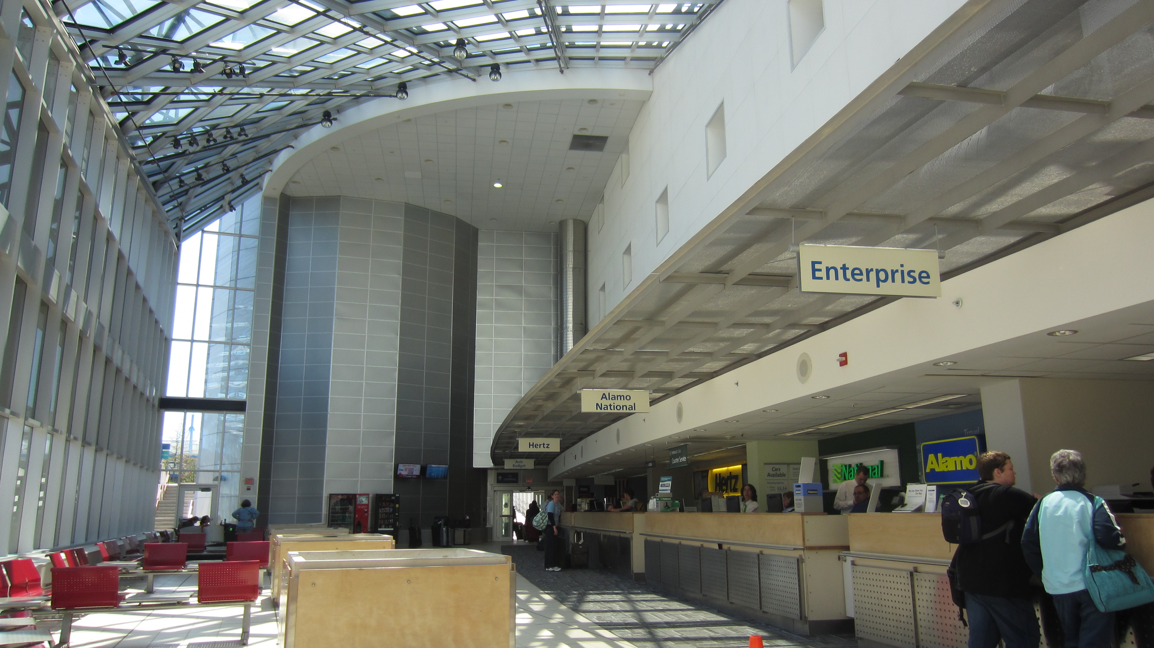 Inside Jetport car rental facility.